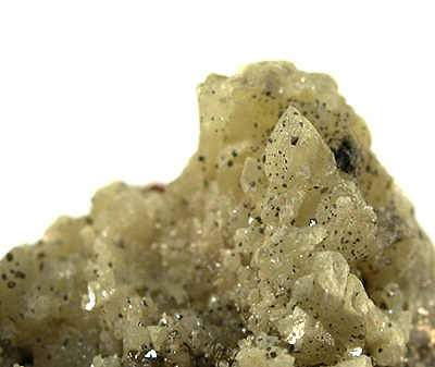 Iodargyrite Locality: Adelaide Mine (Adelaide Pty Mine; Adelaide Proprietary Mine), Dundas mineral field, Zeehan District, Tasmania, Australia (Locality at ) Size: large cabinet, 4.6 x 4.2 x 3.1 cm Iodargyrite An impressively rich, colorful specimen of this very rare silver species, from the classic and best locality of old Broken Hill. It was formerly in the Don Belsher collection, and he got it from Walt Lidstrom in 1984. Iodorgyrite is the rarest of the group of related silver chlorides from Broken Hill, and the hardest to obtain today in good crystals. These were mined in the 1940s mostly (with perhaps a trickle coming out later in the 60's ?). This specimen has EXTREMELY sharp, wellformed crystals and they are translucent yellow and attractive, with good lustre (better in person). The specks on top seem to be minute crystals of the related species chlorargyrite.